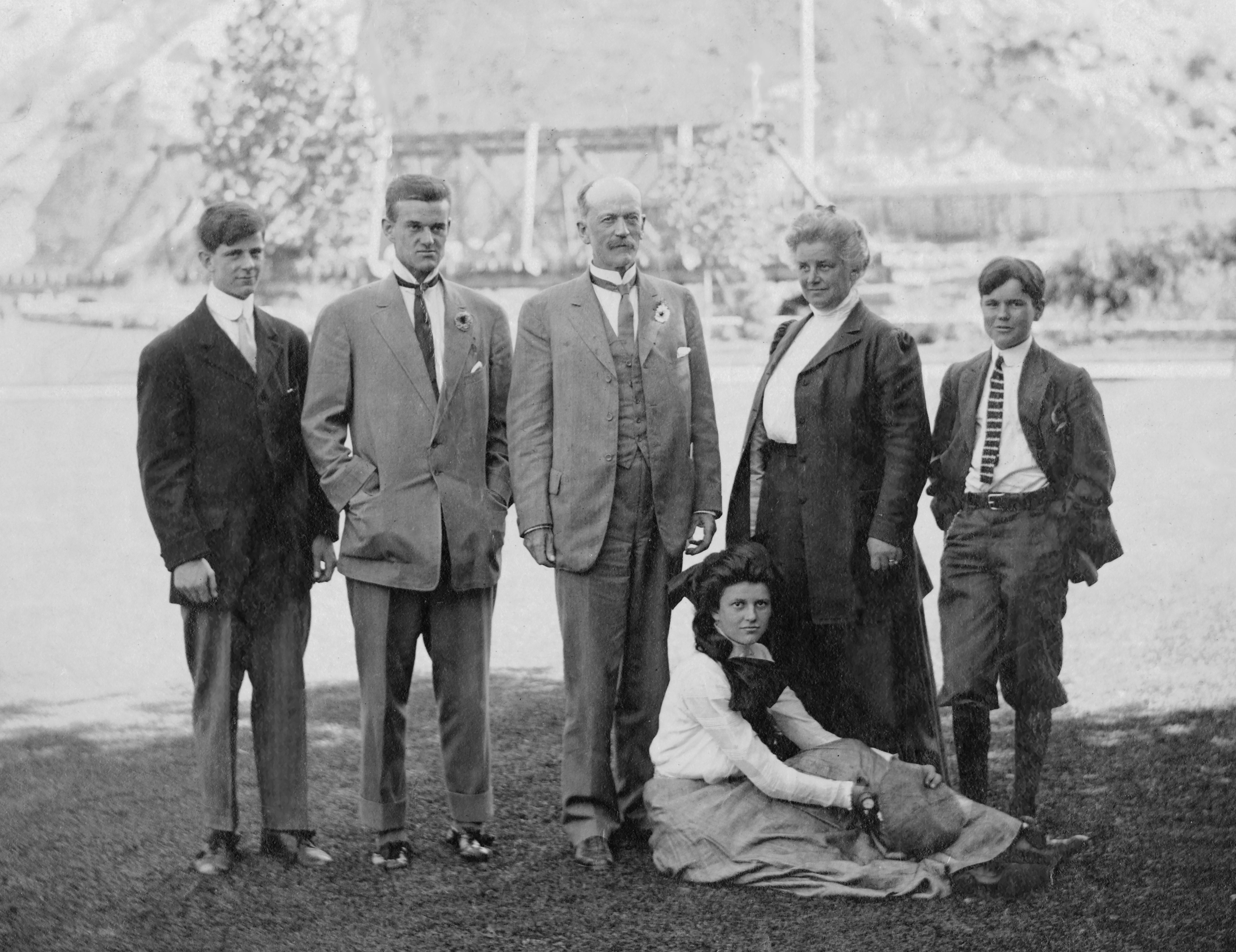 Description: Paleontologist and fourth Smithsonian Secretary Charles Doolittle Walcott (1850-1927) often took his family along on collecting trips. This photograph was taken around 1907 when the family stopped at "Olmsted" near Provo, Utah. Standing, from left to right, is Sidney Stevens Walcott (1892-1977), Charles Doolittle Walcott, Jr. (1889-1913), Walcott, Sr., Helena Stevens Walcott (d. 1911), Benjamin Stuart Walcott (1895-1917); and seated, Helen Breese Walcott (1894-1965). There is more information on the family at Flickr. Creator/Photographer: Unidentified photographer Medium: Black and white photographic print Date: c. 1907 Persistent URL: Repository: Smithsonian Institution Archives Collection: Accession 90-105: Science Service Records, 1920s – 1970s - Science Service, now the Society for Science & the Public, was a news organization founded in 1921 to promote the dissemination of scientific and technical information. Although initially intended as a news service, Science Service produced an extensive array of news features, radio programs, motion pictures, phonograph records, and demonstration kits and it also engaged in various educational, translation, and research activities. Accession number: SIA2009-0983